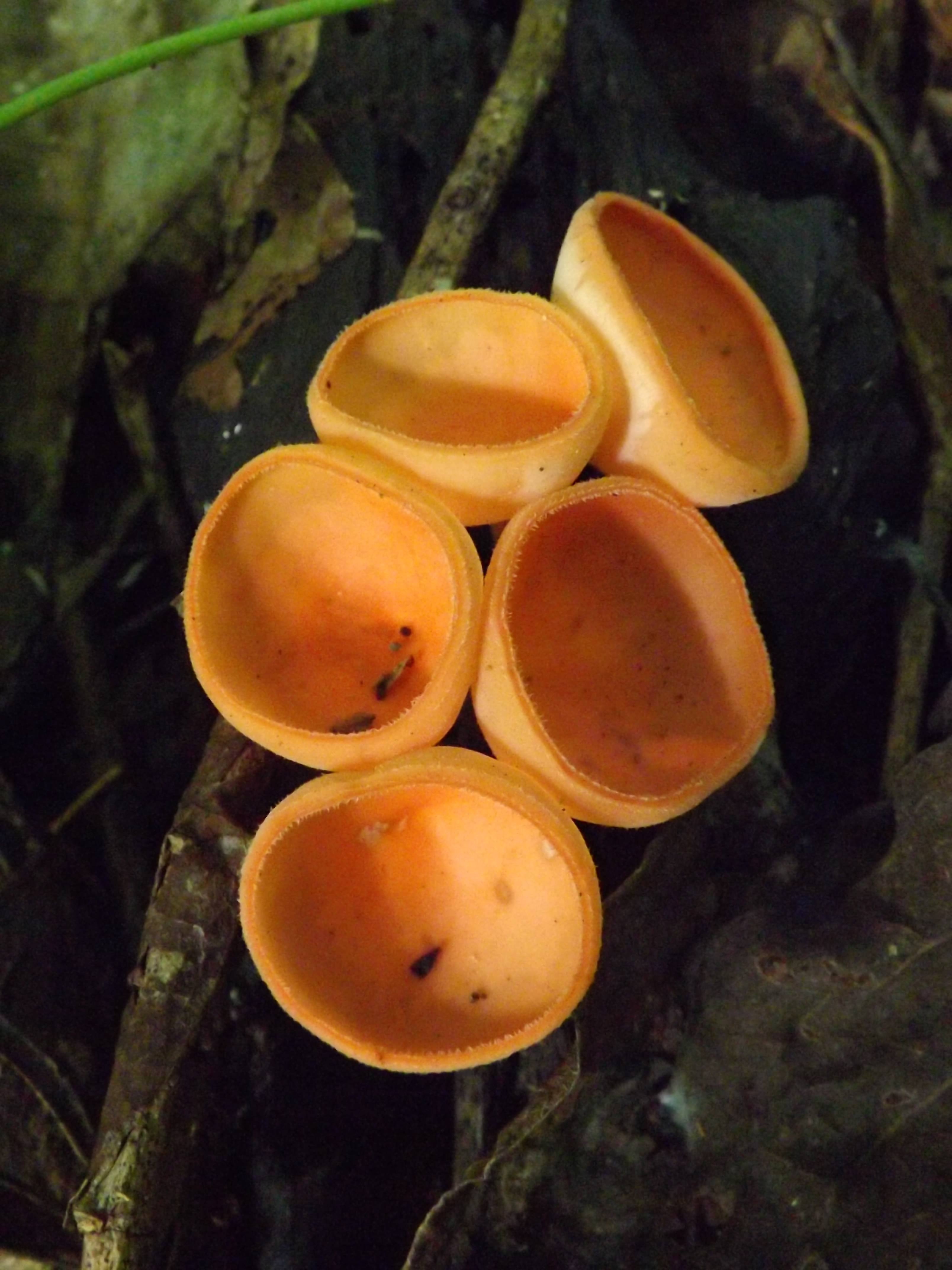 Cookeina speciosa group Image location: Parque Nacional Palenque, Chiapas, Mexico Identified with an American field guide, yet this is a Mexican mushroom, meaning that it could be off. The description matches this find quite well however, and hopefully it is common enough to key out in an American book. Used references: Iturriaga & Pfister, Mycotaxon 95: 137-180 – freely accessible via For more information about this, see the observation page at Mushroom Observer.